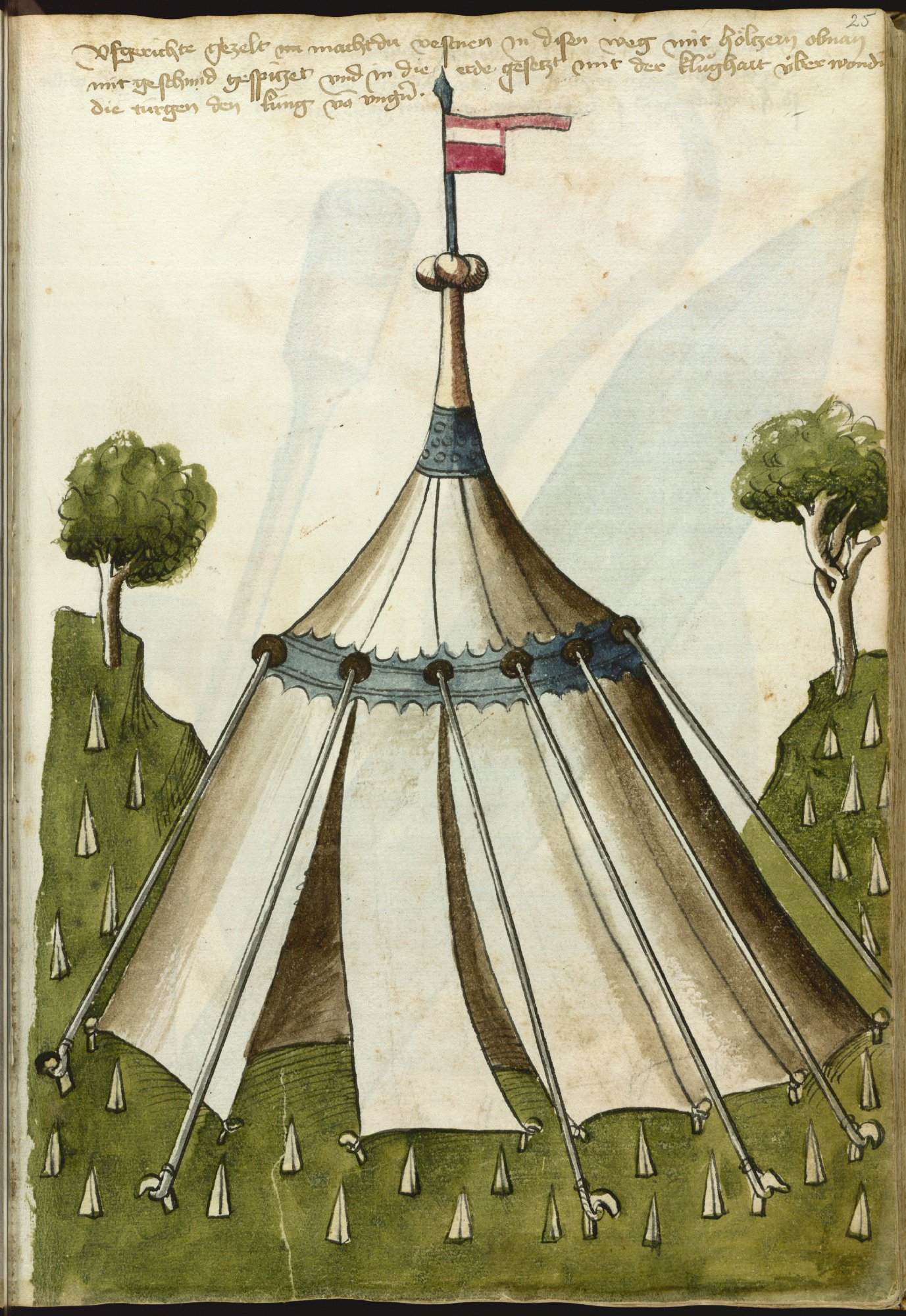 The Ms.Thott.290.2º is a fencing manual written in 1459 by Hans Talhoffer for his own personal reference and illustrated by Michel Rotwyler.